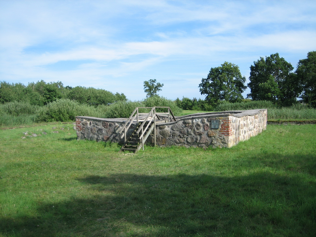 The ruins of Falsterbohus, Skåne, Sweden